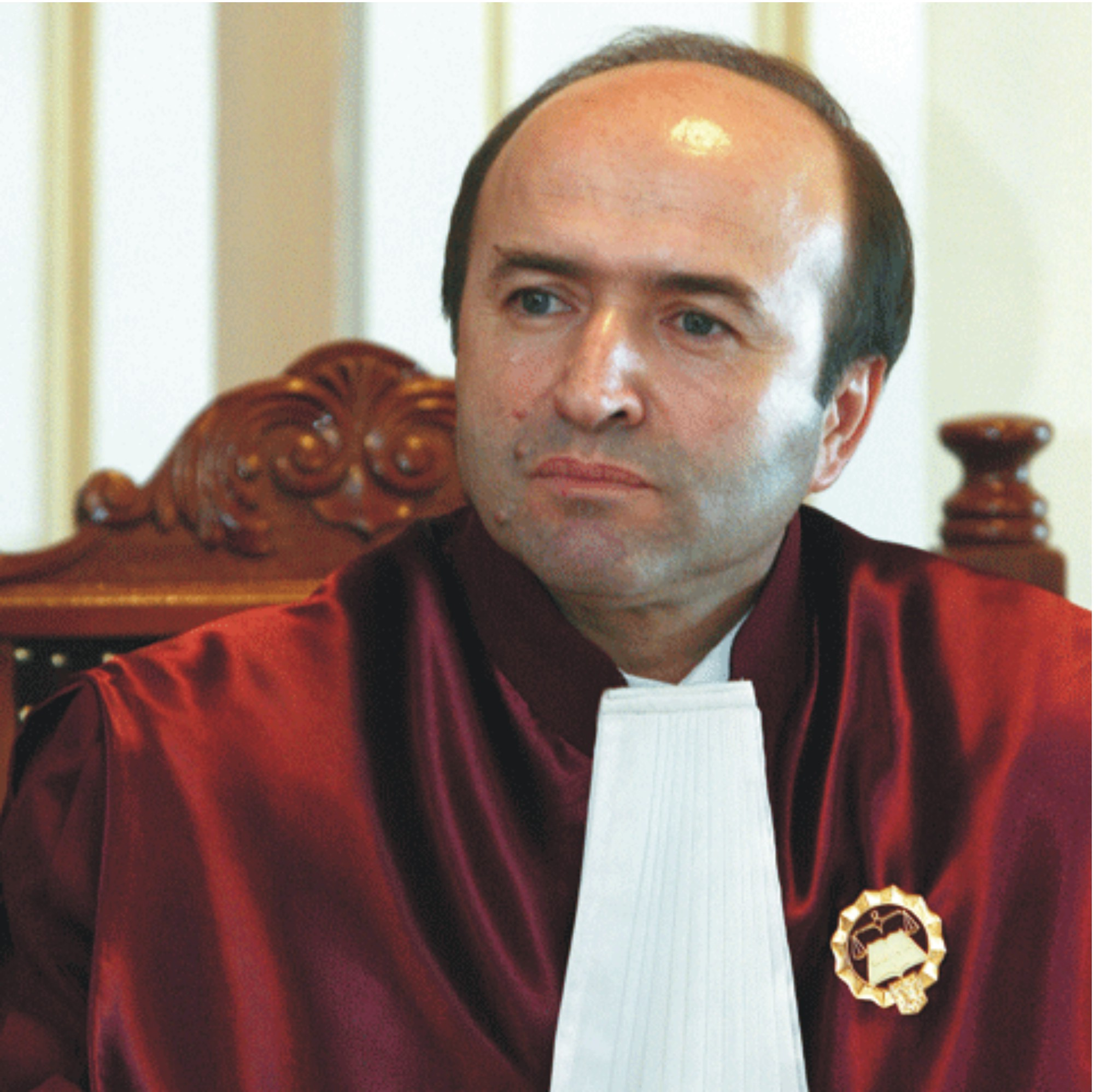 Picture